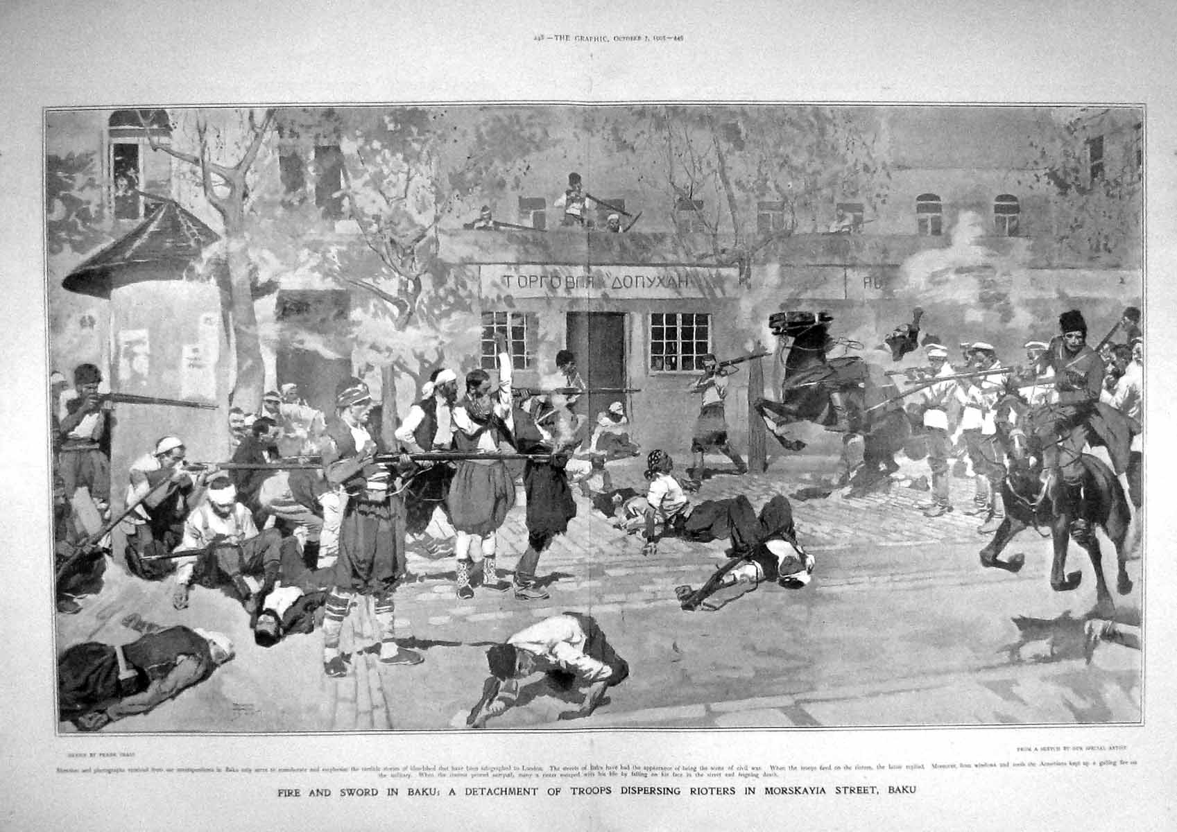 «Fire and swords. A detachment of troops dispersing rioters in morskayia street. Baku.» A double page from the GRAPHIC, an illustrated weekly newspaper dated 1905, the size of each page is approximately 22 x 16 inches (560x410)